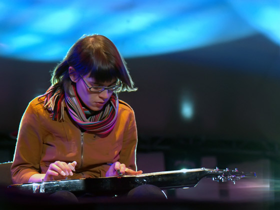 Kaki King The 1st Adelaide International Guitar Festival November 2007